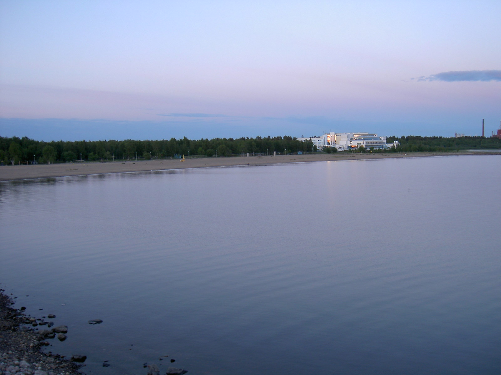 Nallikari Beach and Spa Hotel Eden in Oulu, Finland, in a bright summer night